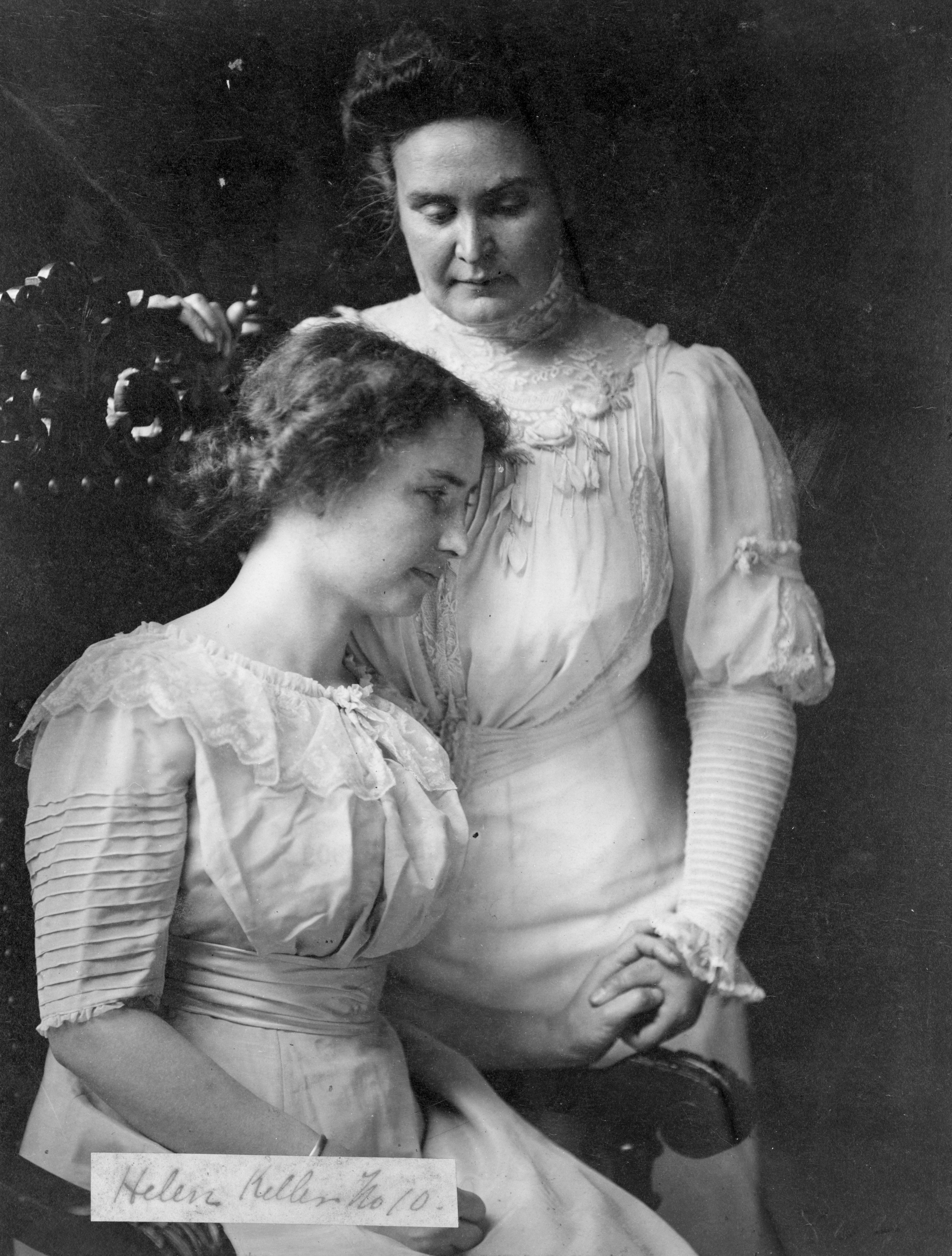 Helen Keller, 3/4 lgth., seated, facing right; holding hand of her teacher, Mrs. John A. Macy (Anne Mansfield Sullivan)